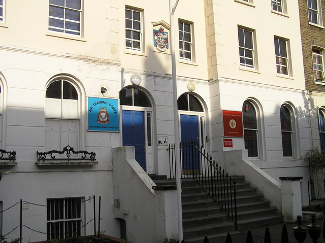 Albion Road, London N16 - Air Training Corps, Army Cadet Force These premises have been used by the Air Training Corps (ATC) and Army Cadets for training since at least 1940. At the rear of the premises is a small training ground once used for marching and band practice. Thirteen ATC cadets trained here gave their lives in World War II. During the 1950's the ATC band paraded to and from St Mary's church, attracting much local interest and also took part in the ATC massed band at the Royal Tournament(1957) held at Olympia.